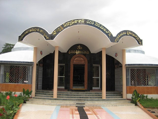 Samadhi Mandir of Sri Vidyaprakasananda Giri Swamy at SukaBrahma Ashram,Sri Kalahasti